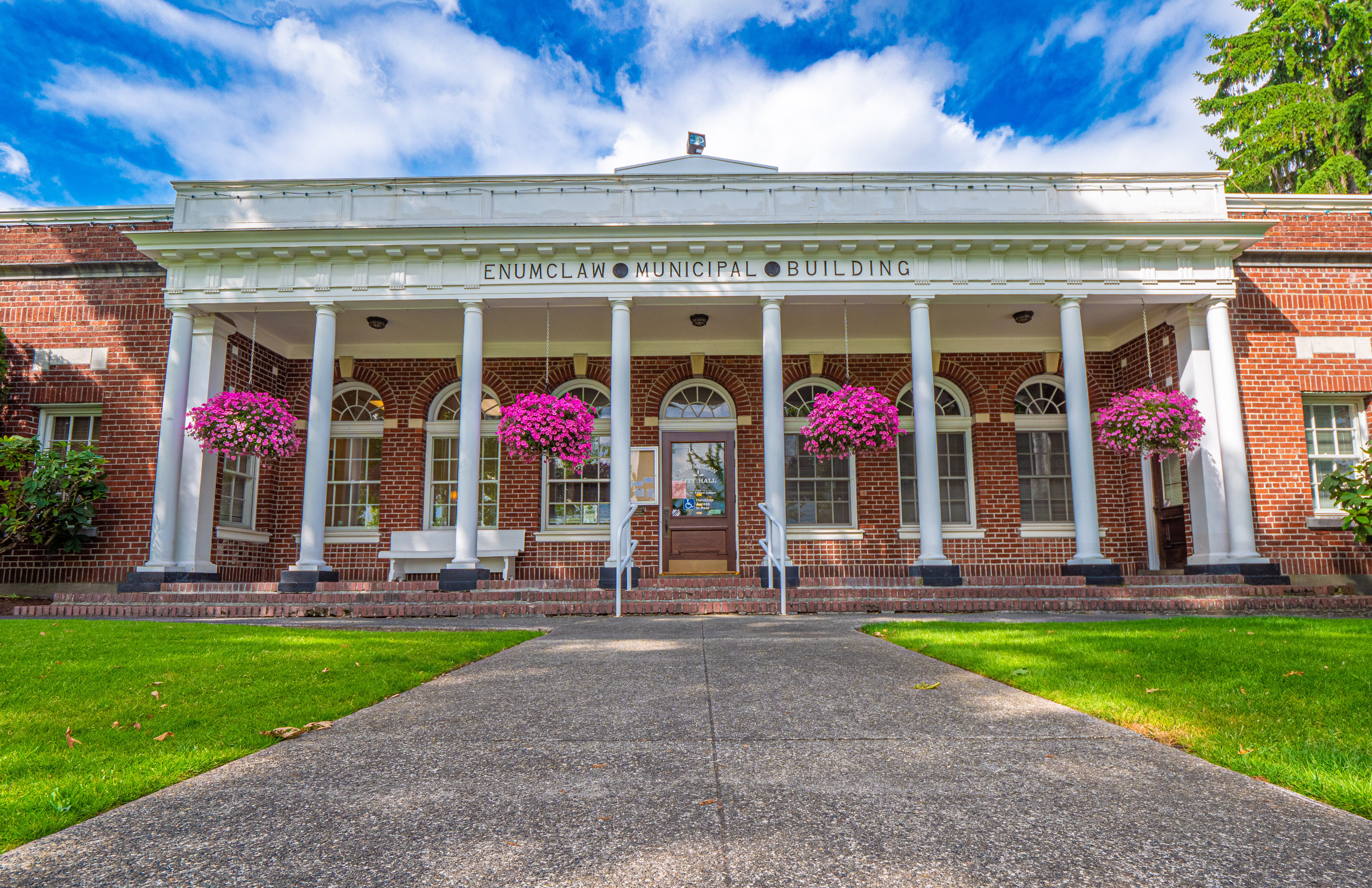 Photo of City Hall, Enumclaw, WA, USA